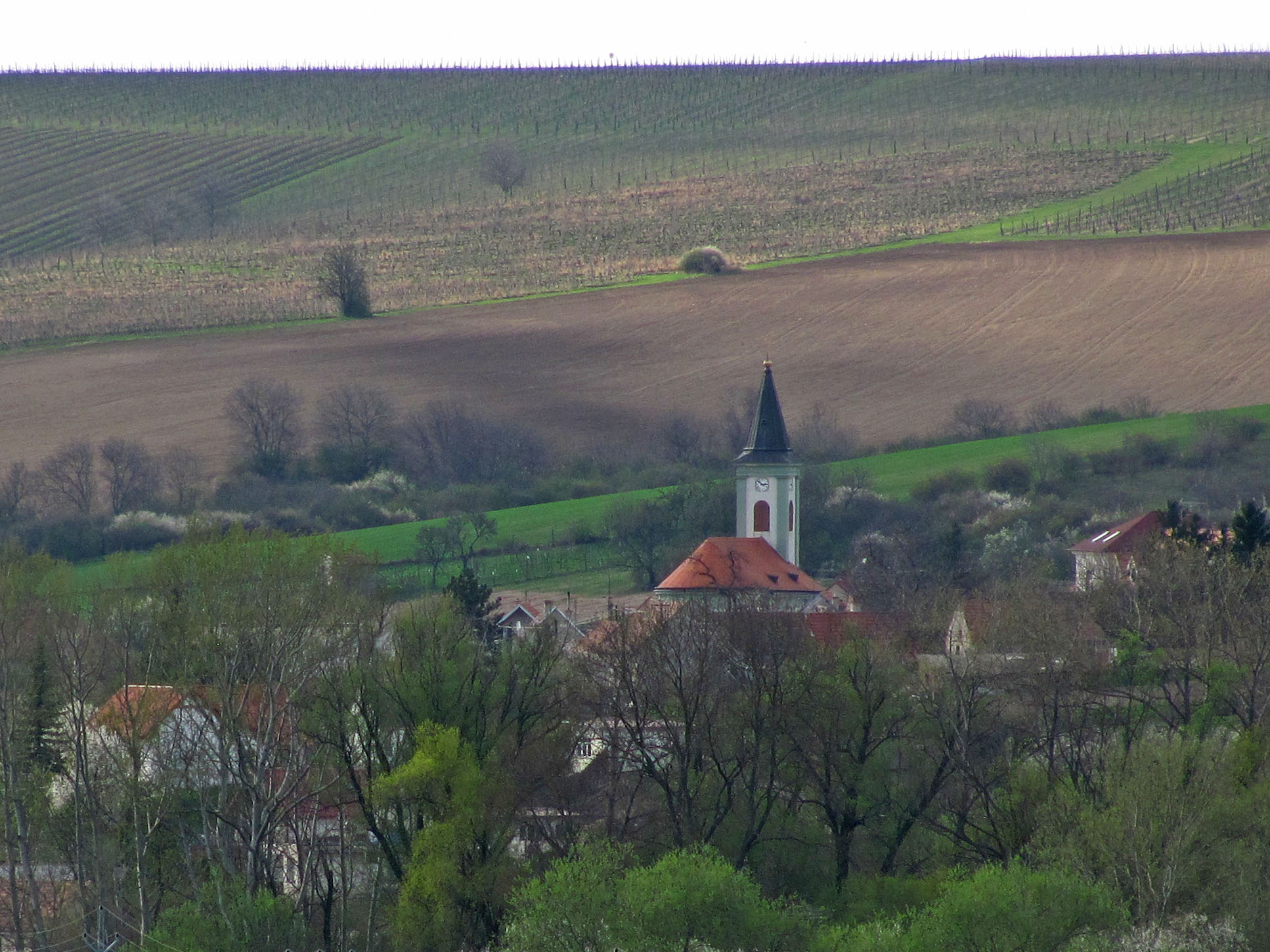 view Úvaly from Valtice (with the church of St. Stanislav Kostka)